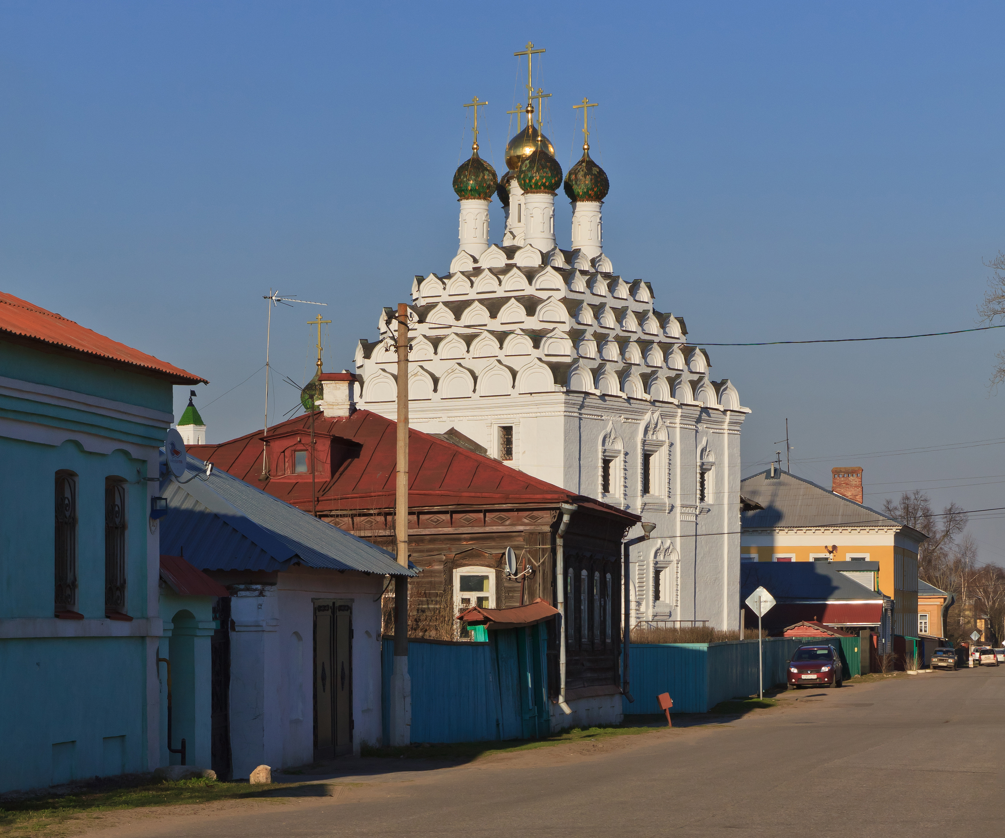 Church of Saint Nicholas in the Posad. Kolomna, Moscow Oblast, Russia.